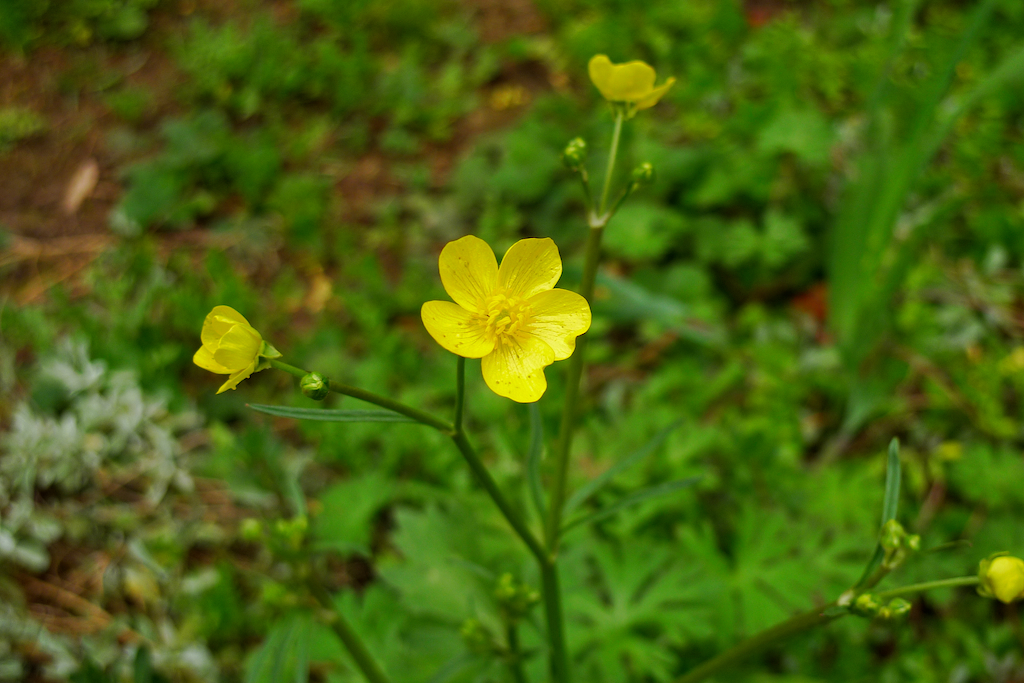 Ranunculus californicus — California Buttercup. A spring native of California, common in many habitats.